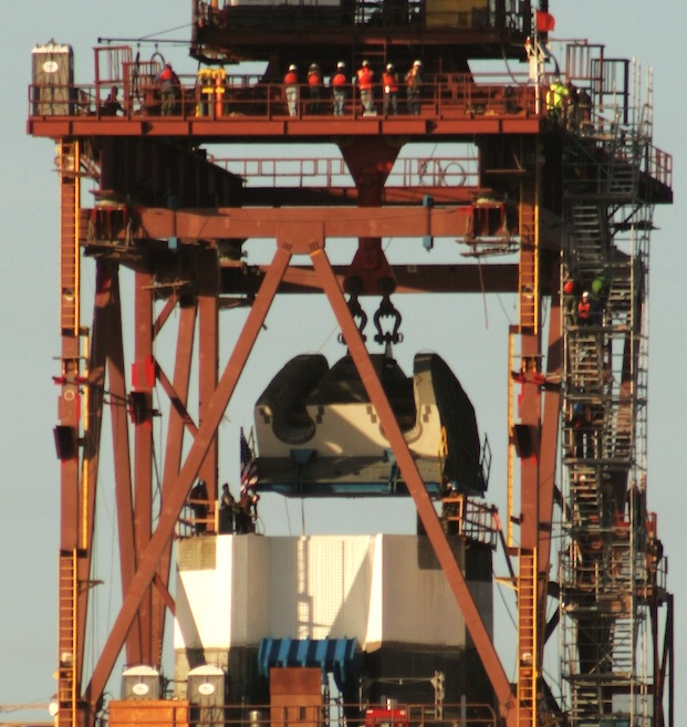 Cable saddle placement, eastern span replacement of the San Francisco - Oakland Bay Bridge